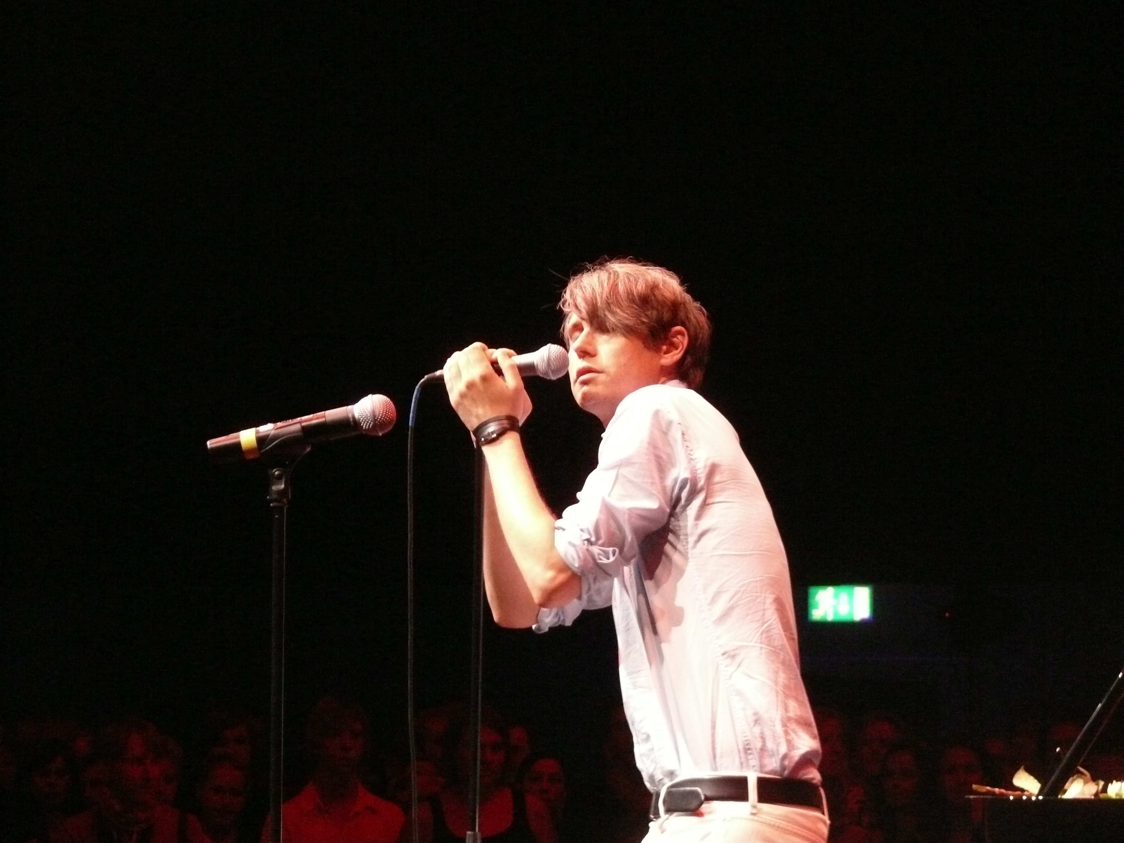 Dirk von Lowtzow performing in the opening of Steirischer Herbst in Graz, Austria.